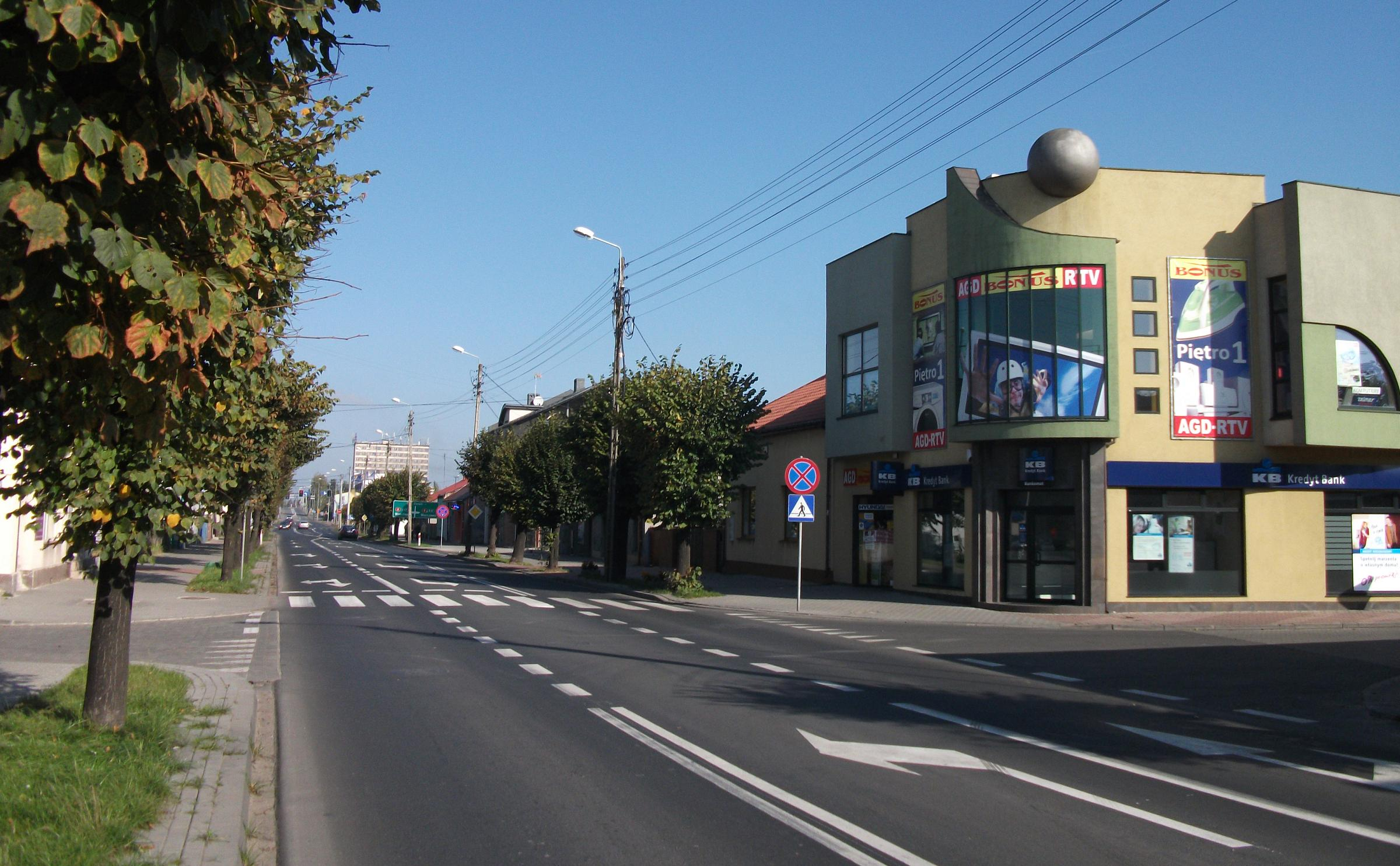 Sieradzka Street in Wieluń (National Road 45)